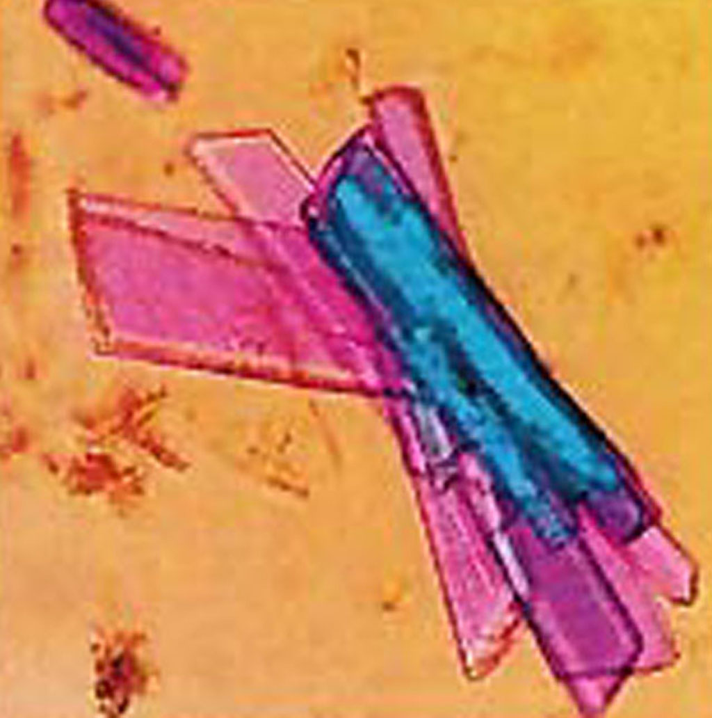 Creatine Kinase (Rabbit) Converts the major storage form of high energy phosphate (creatine phosphate) to usable energy form (ATP). A major muscle enzyme and implicated in some muscle diseases.